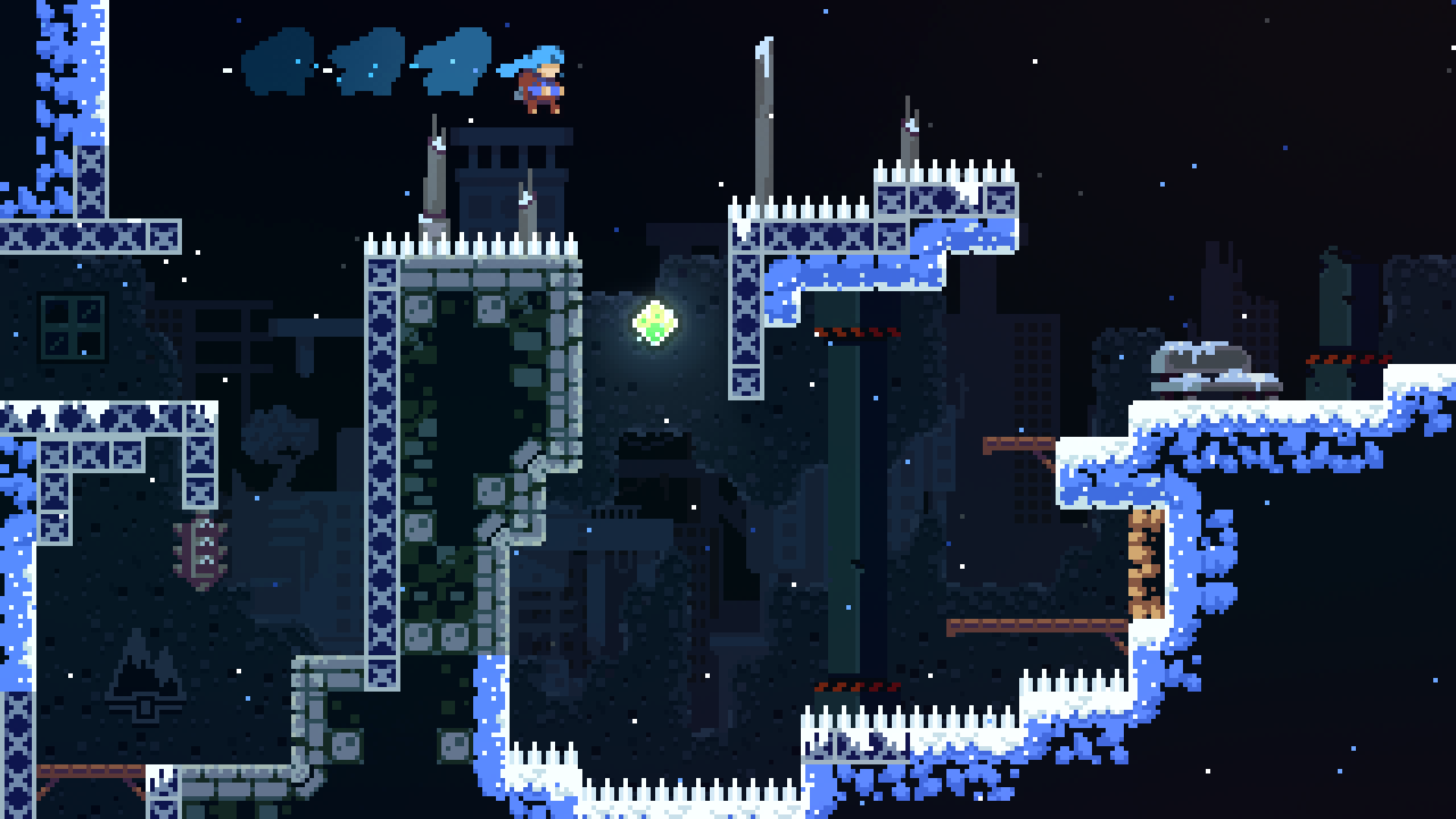 Screenshot of the 2018 video game Celeste